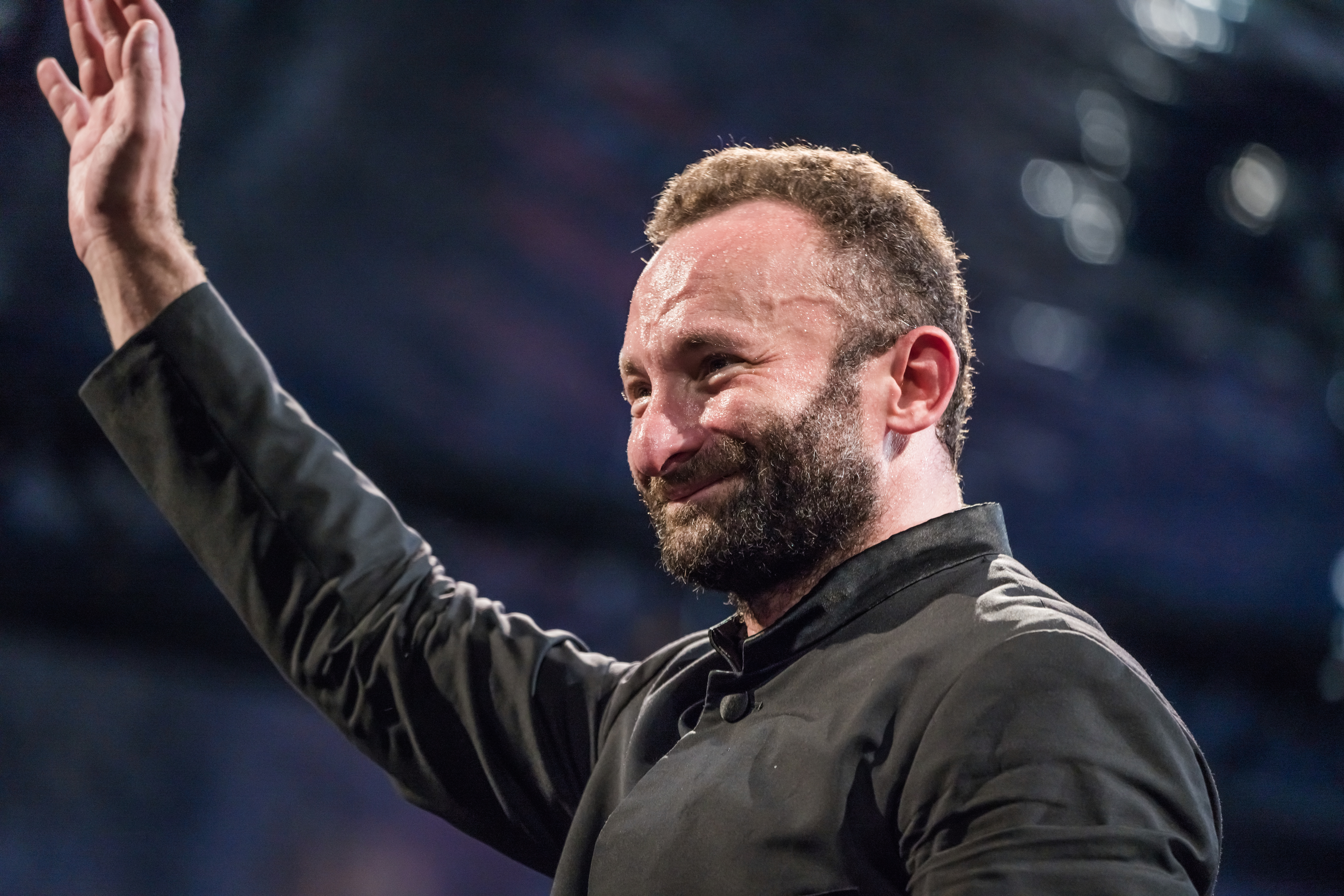 On 24 August 2019 the Berlin Philharmonics gave an open air concert at Brandenburg Gate in Berlin, with an audience of nearly 35,000 people. The conductor was Kirill Petrenko from Russia. The orchestra performed Beethoven's Symphony No. 9 D minor Op. 125.